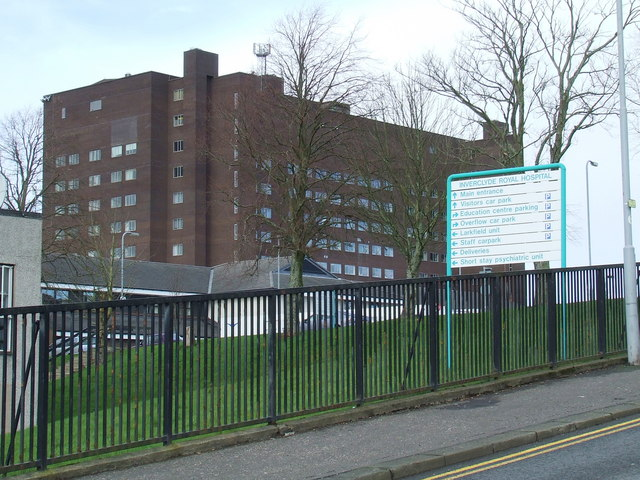 Inverclyde Royal Hospital Opened in 1978 to replace the Victorian Greenock Royal Infirmary. Serves Inverclyde and towns on both sides of the lower Clyde. The Emergency Department was recently saved from closure.